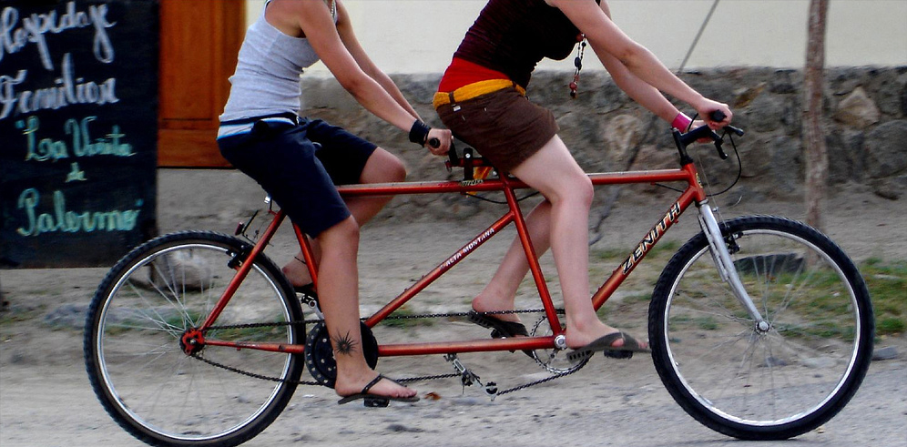 Zenith Tándem Doble Diamante Made in Argentina